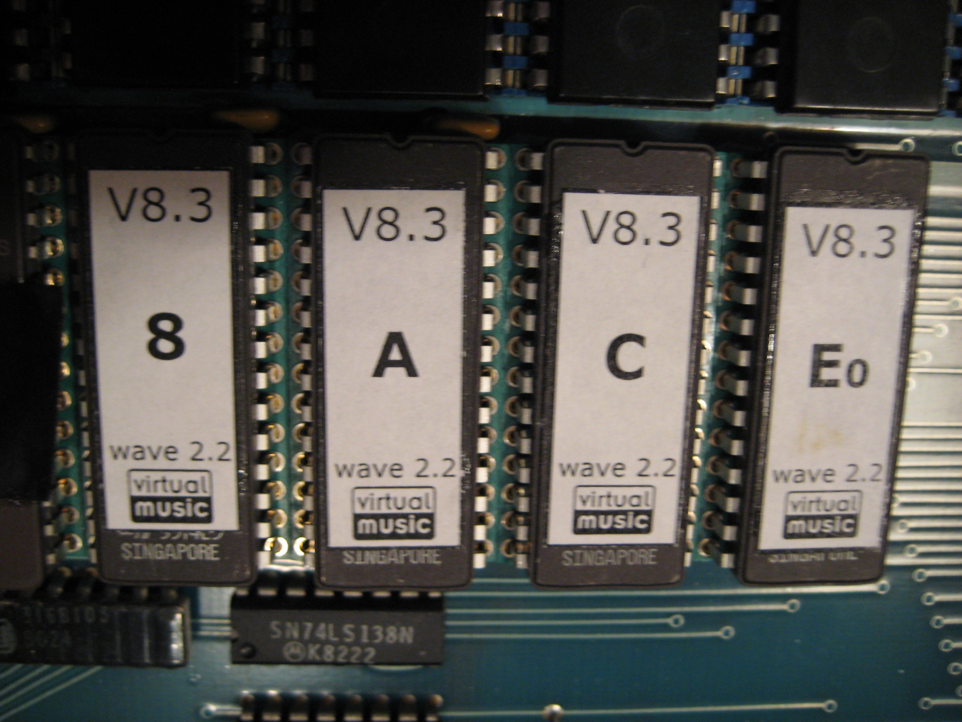 The new Wave OS V8.3 firmware Upgrade EPROM set has been installed on the I/O board.